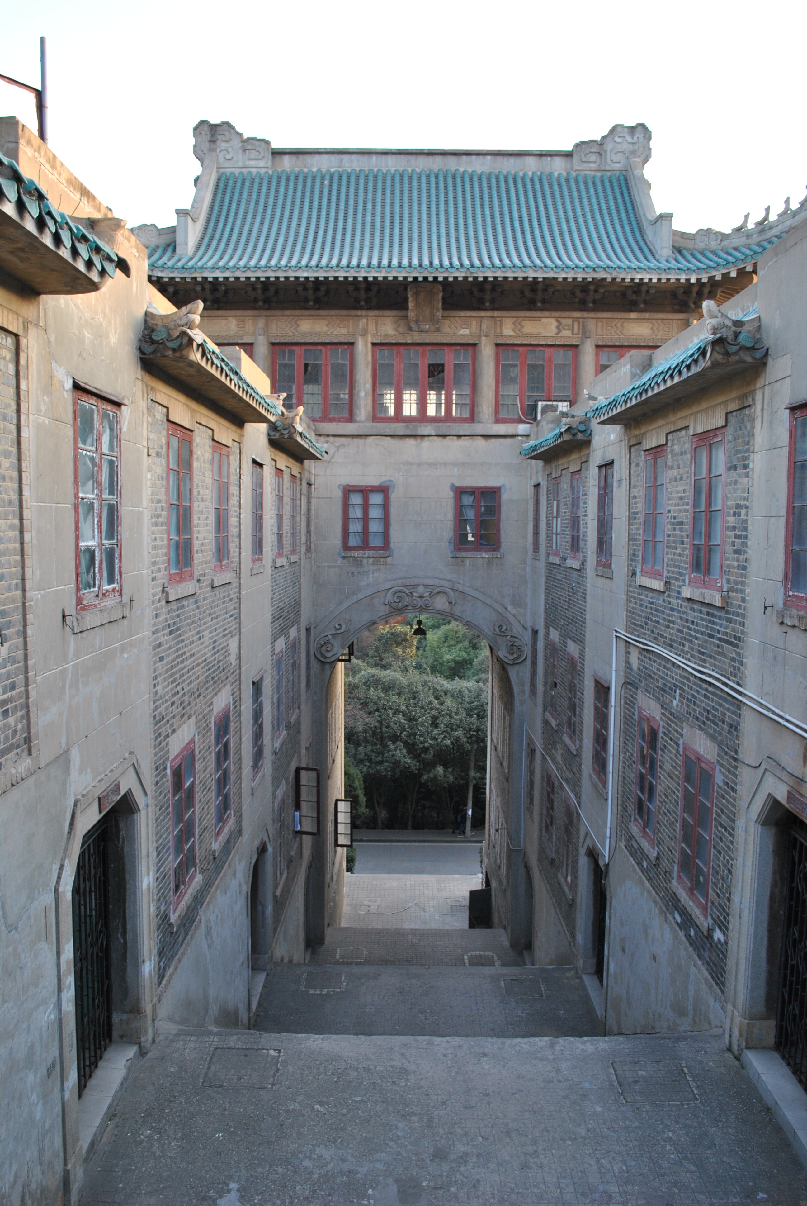 old dorm building in Yingyuan of Wuhan University